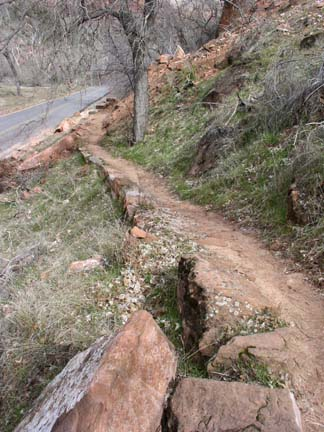 Grotto Trail in Zion National Park, Utah, USA